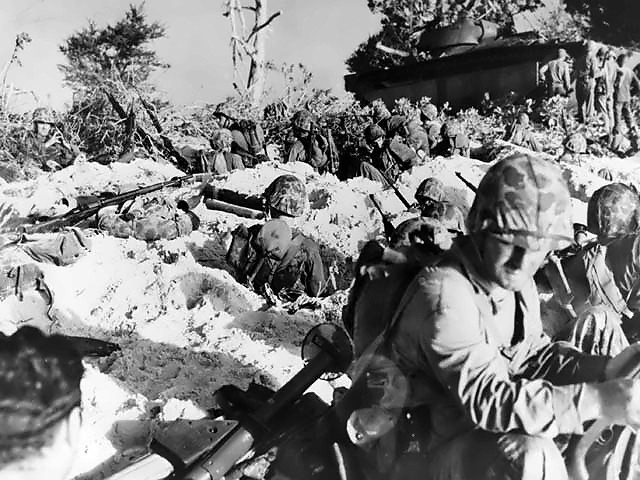 Marines dig in on Saipan. The first rays of the morning sun show Marines digging in on the beach at Saipan. This photo was taken on the first morning when Marines were securing their first toe-hold on that island